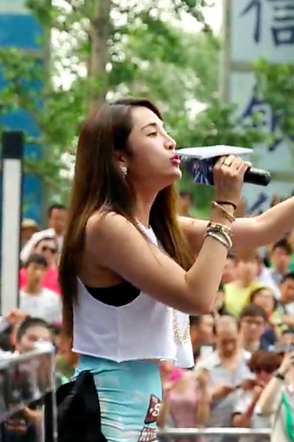 Ivy live in Beijing